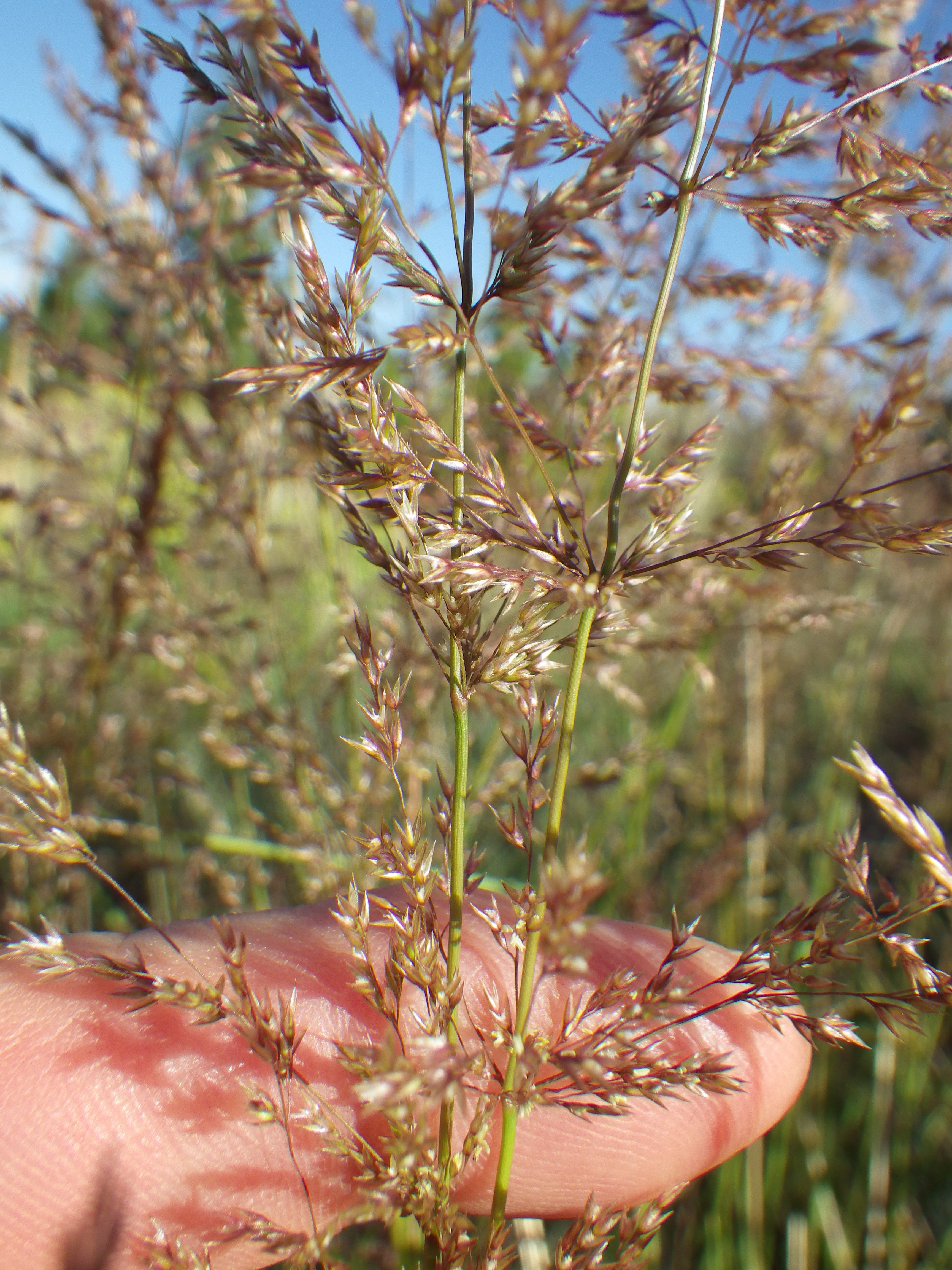 This introduced grass was growing with a bunched habit in an area that may have been vegetatively restored and there mainly at the bottom of shale barrens where perhaps water runoff was collected. The spikelets have well developed paleas and are borne generally along the length of the inflorescence branch. The ligules are about 4-5 mm long, generally longer than wide.